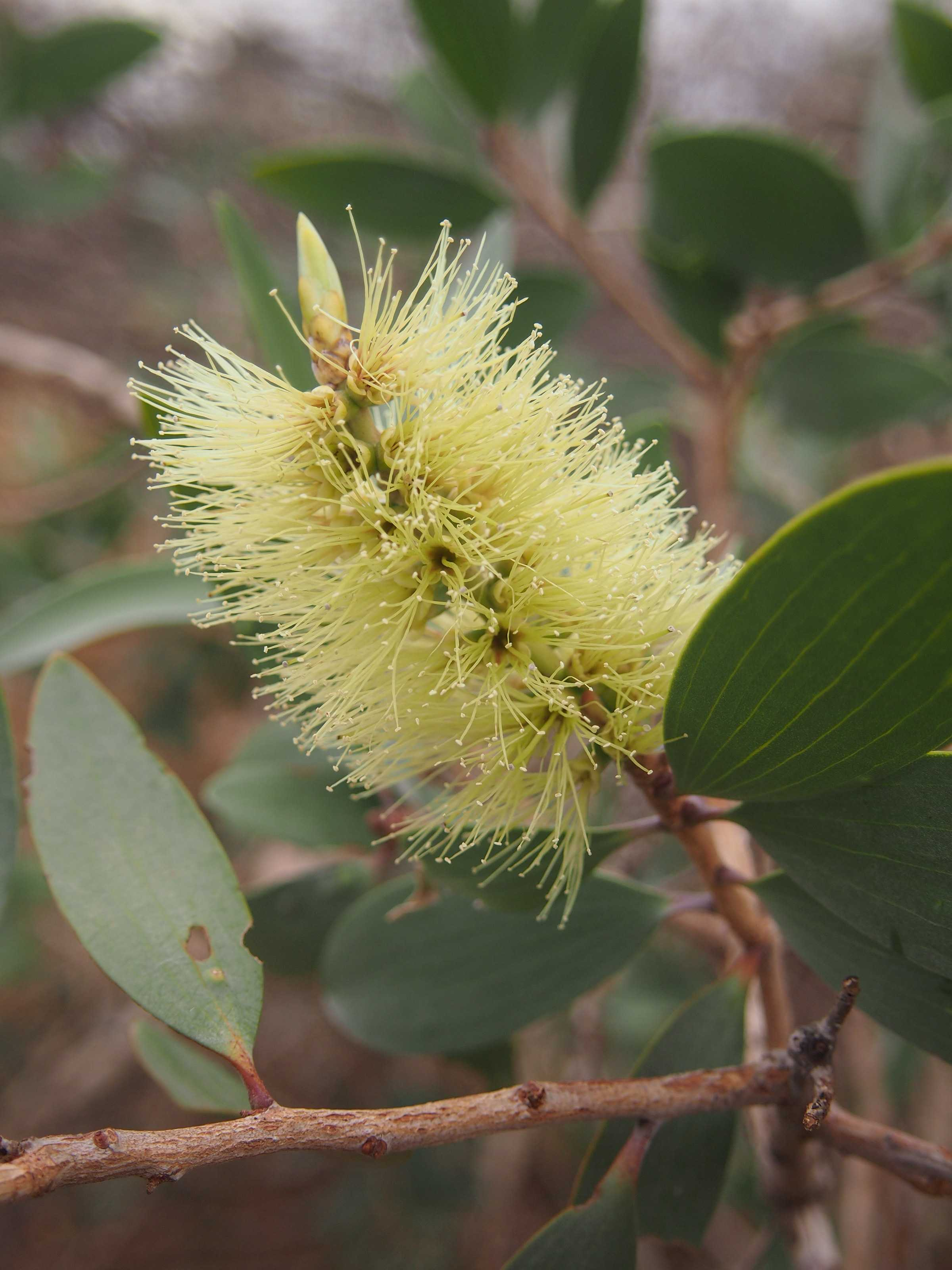 Melaleuca quinquenervia flowers